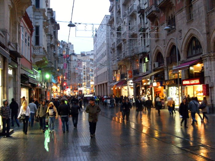 Istiklal Street